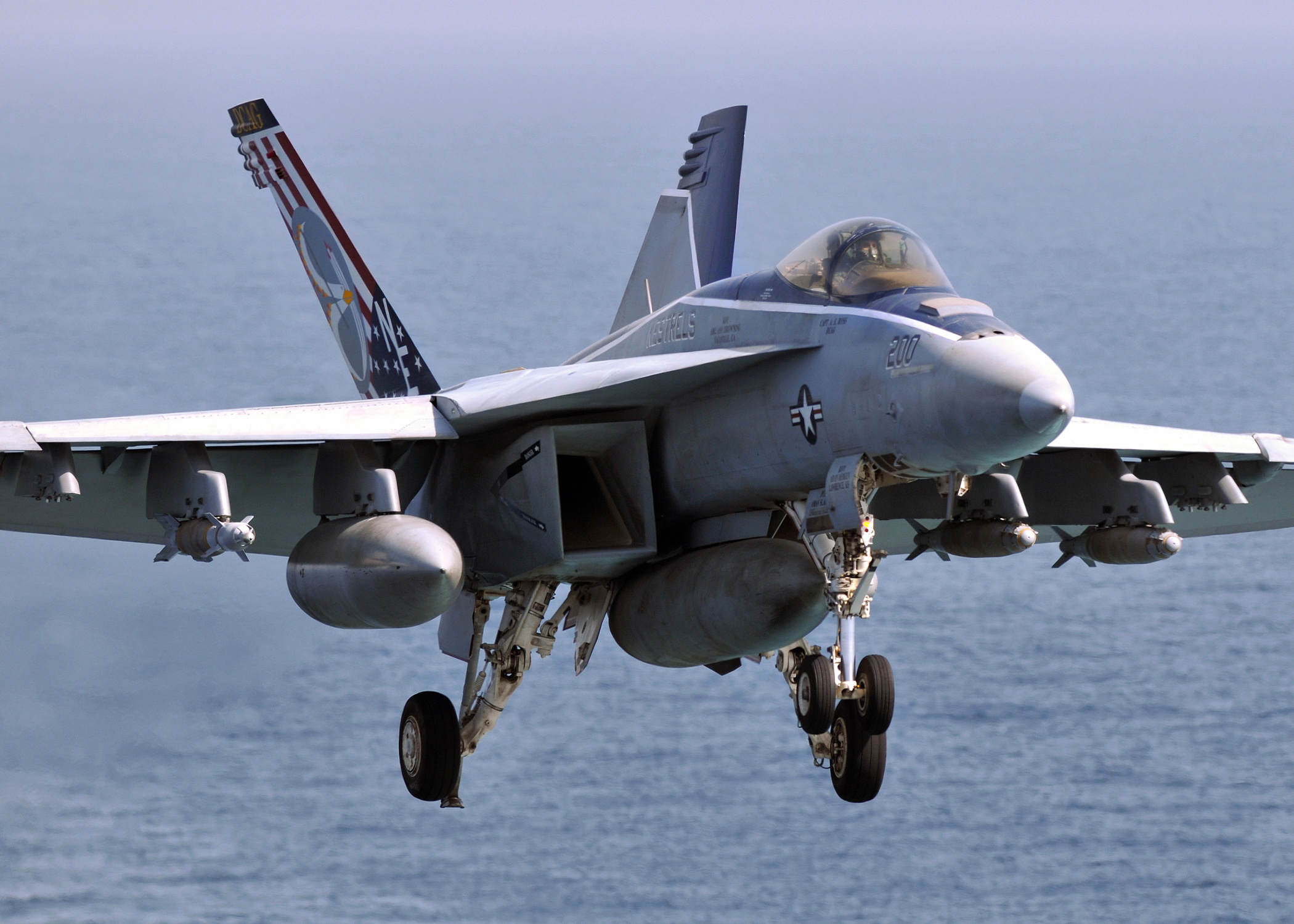 PERSIAN GULF (June 27, 2008) An F/A-18E Super Hornet assigned to 'Kestrels" of Strike Fighter Squadron (VFA) 137 approaches to make an arrested recovery on the flight deck of the Nimitz-class aircraft carrier USS Abraham Lincoln (CVN 72). Lincoln is deployed to the U.S. Navy 5th Fleet area of responsibility supporting maritime security operations. U.S Navy photo by Mass Communication Specialist 2nd Class James R. Evans (Released)